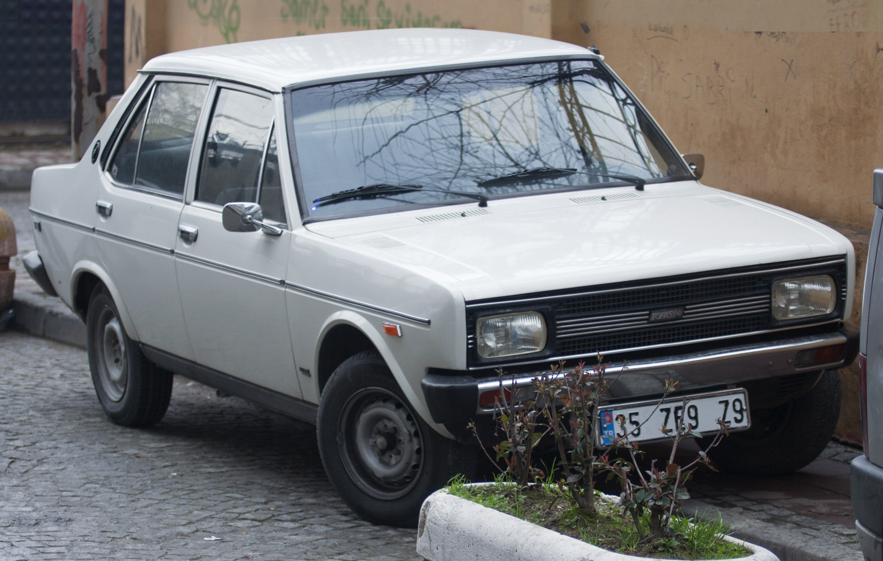 Early Tofaş Murat 131 1300 in Istanbul.